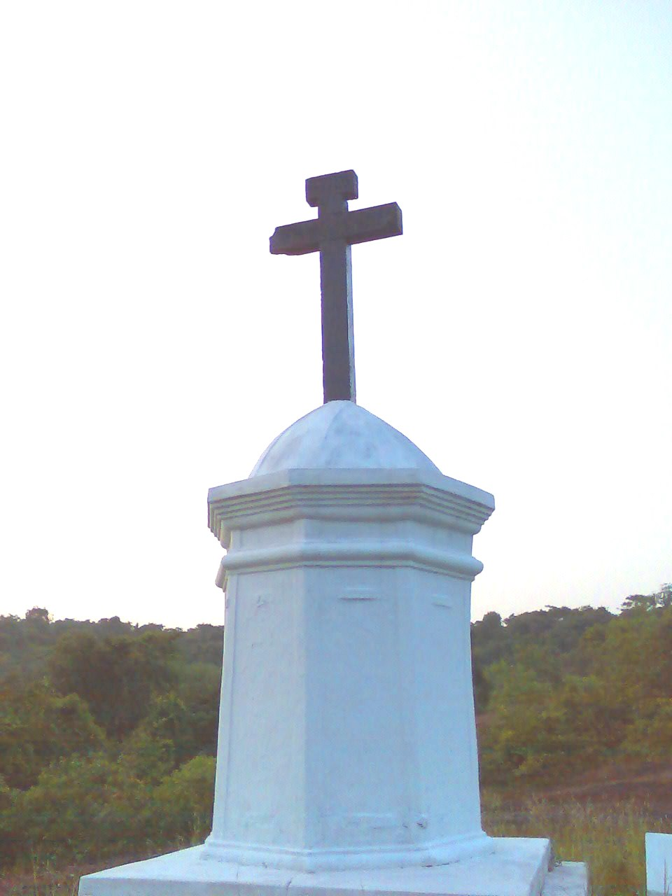 Photo of the black stone cross at Sonarkhett, Bardez, Goa. Sonarkhett was the site of the first church of the villages of Anjuna, Assagao, Siolim and Oxel. The church existed probably in the 15th or 16th centuries A.D. The cross is the only remnant of the church.